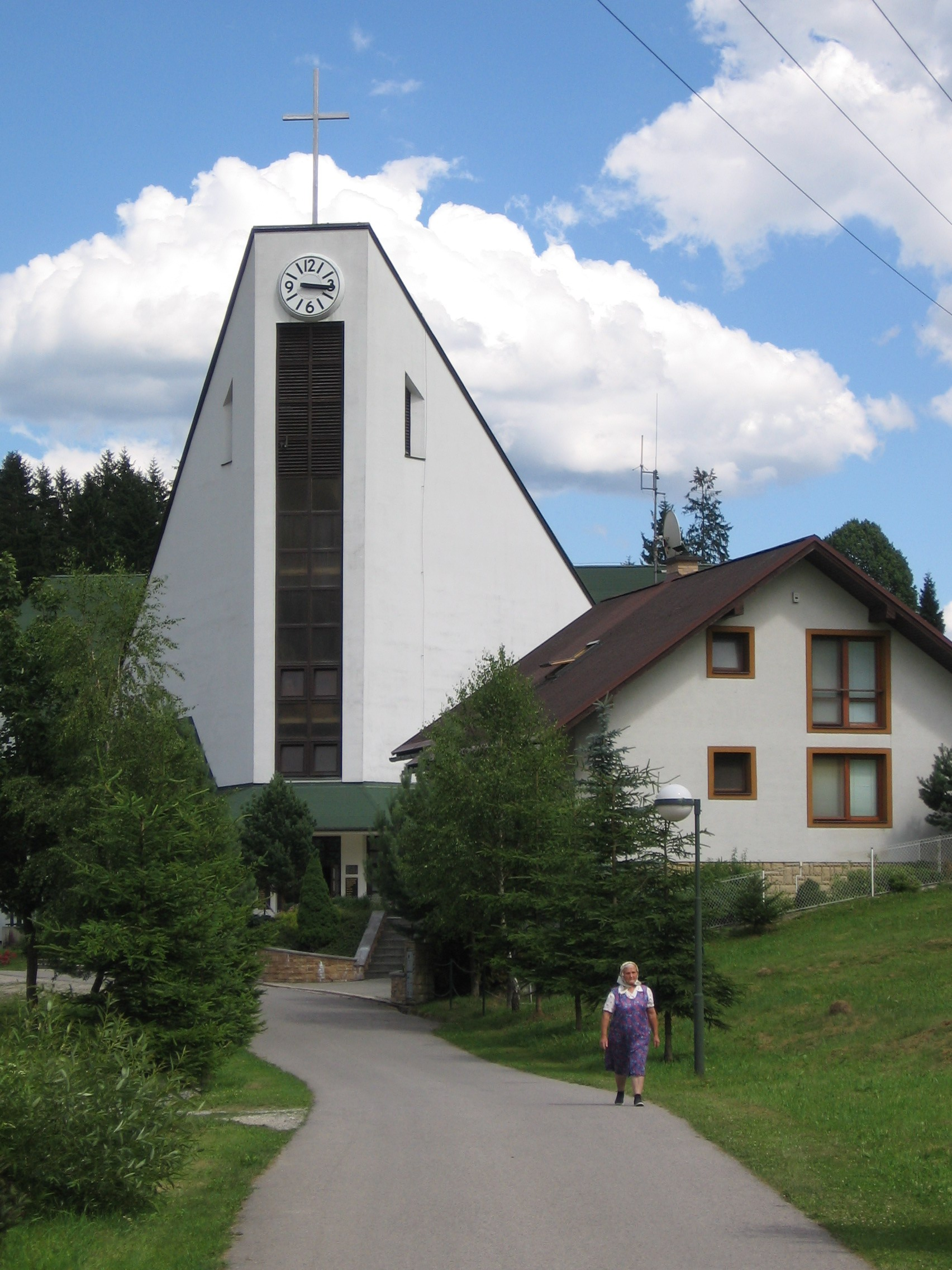 New church in Korńa